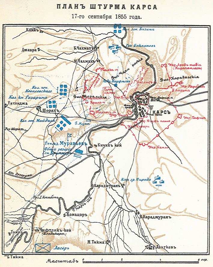 The plan of the Russian assault on Kars on September 17, 1855